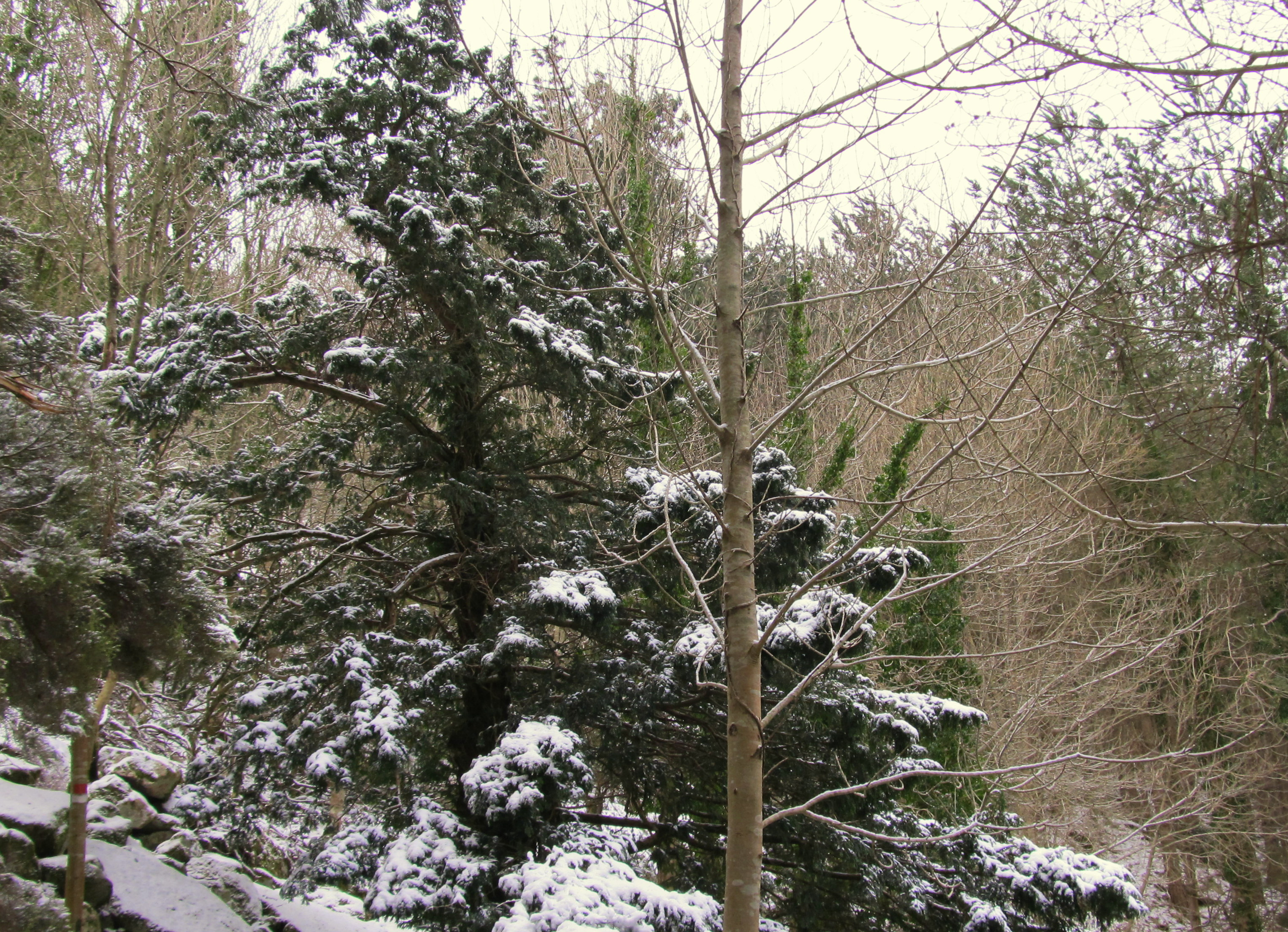 Elba island